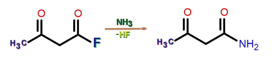 Acetoacetamide synthesis from acetoacetic fluoride and ammonia